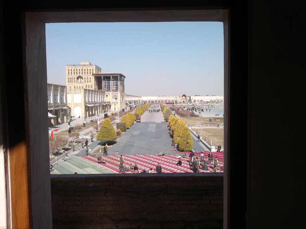 Nishapur_train_station-passengers_portal